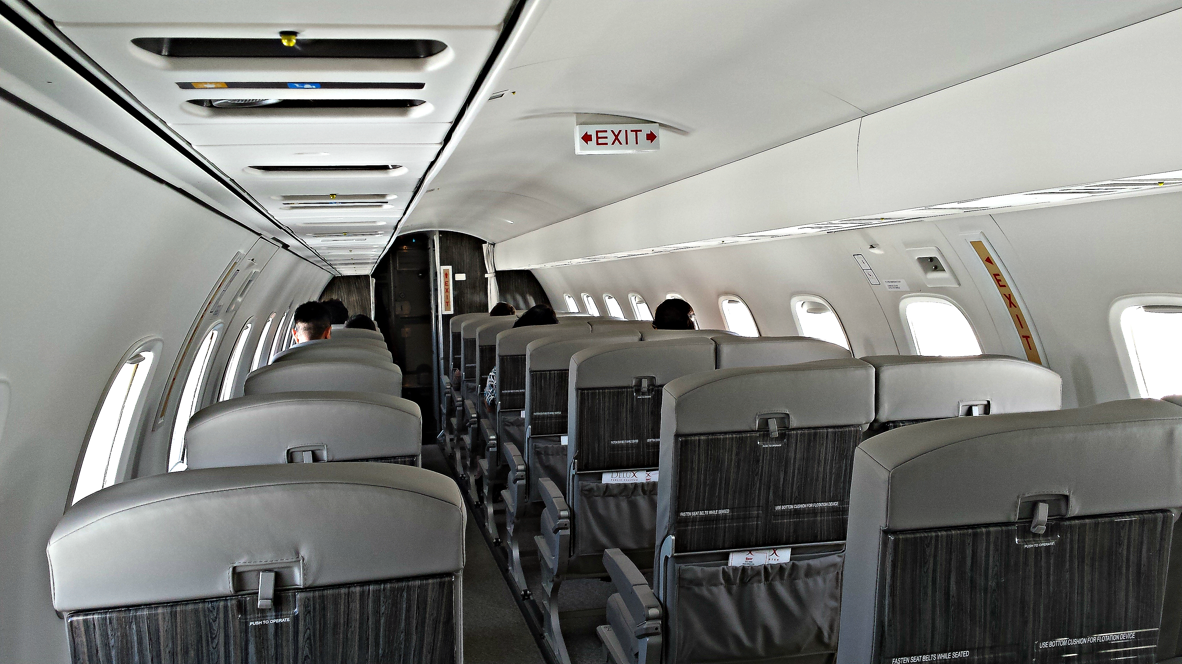 Cabin of JetSuiteX Embraer ERJ 135 registered N719AE